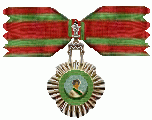 Order of the Queen Fifth Grade "Sri Suvatta Muni Varman Kusuma Niariratna Sri Vadhana"